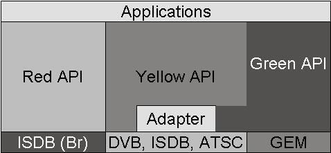 Ginga execution environment on SBTVD